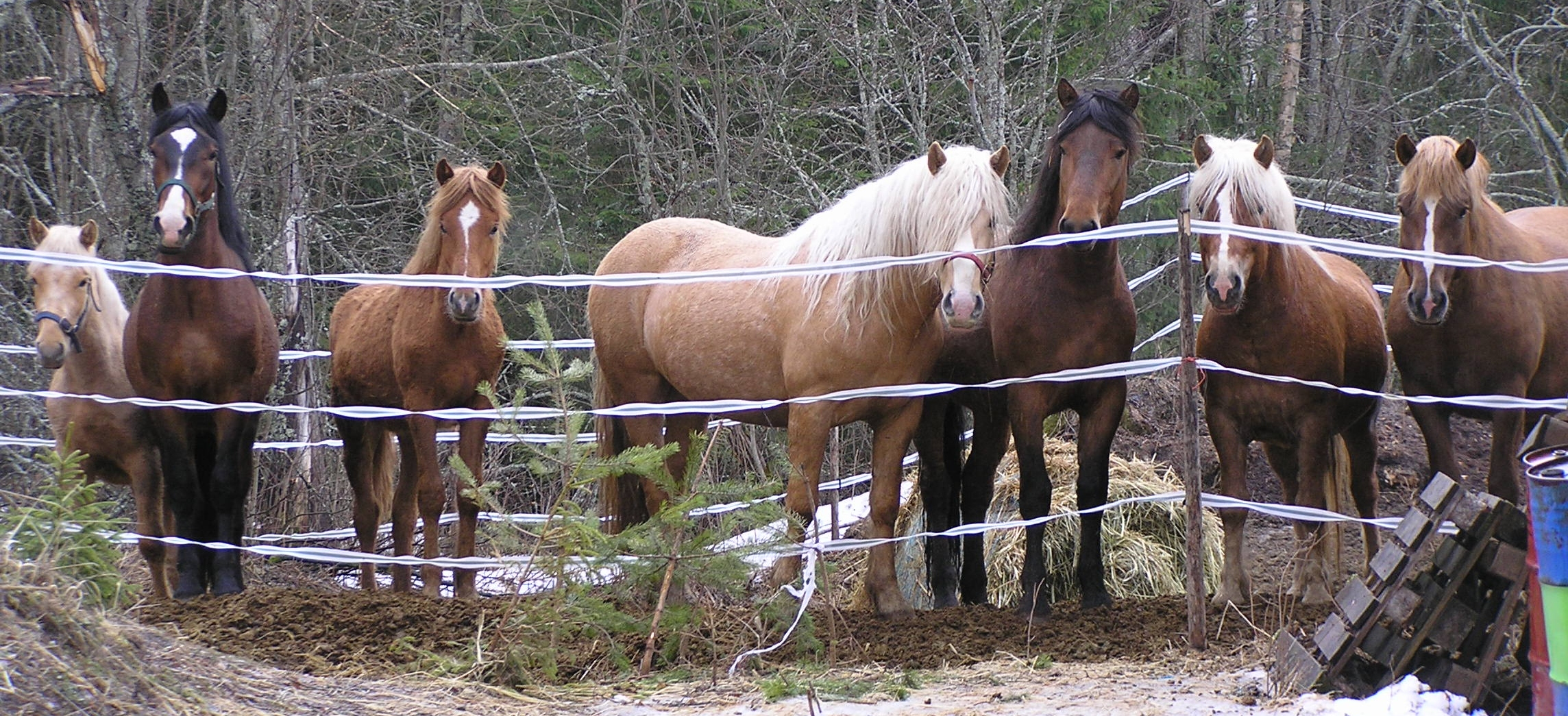 Bachelor group of mature, young and yearling Finnhorse stallions.